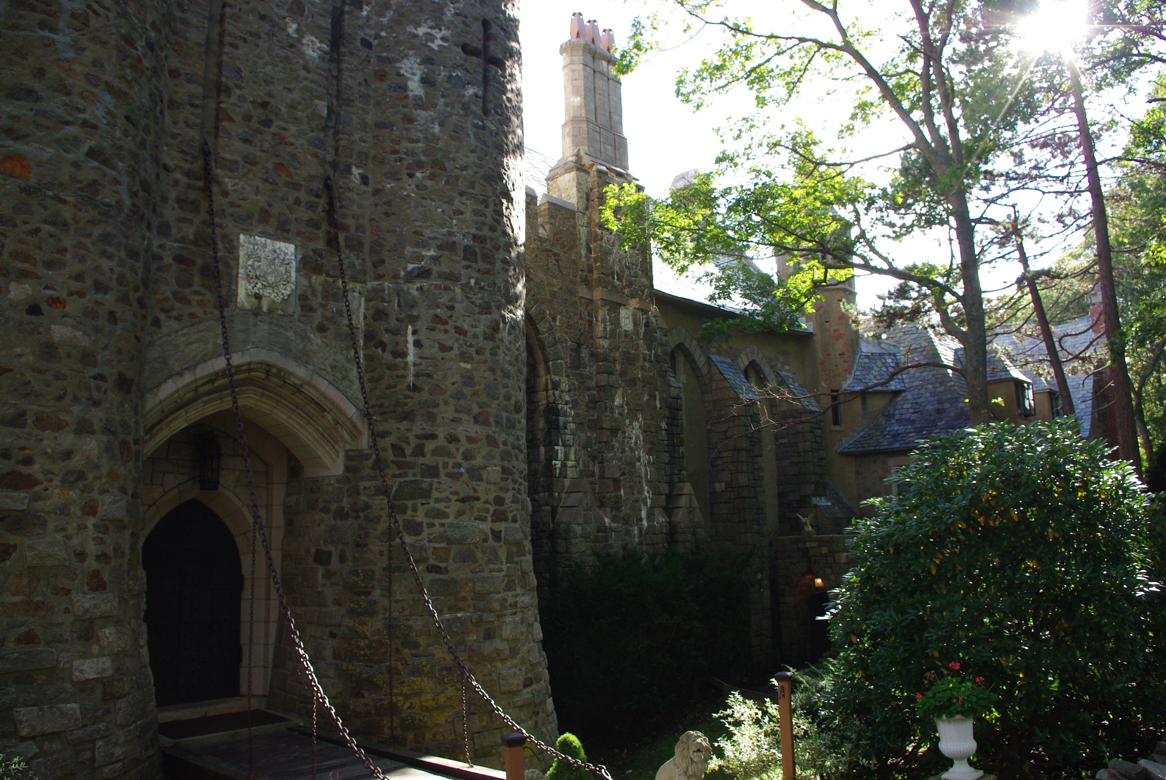 This is the front of the Hammond Castle in Gloucester, MA.